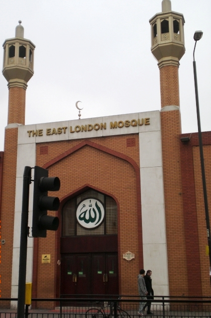 The entrance to The East London Mosque, Whitechapel Road E1